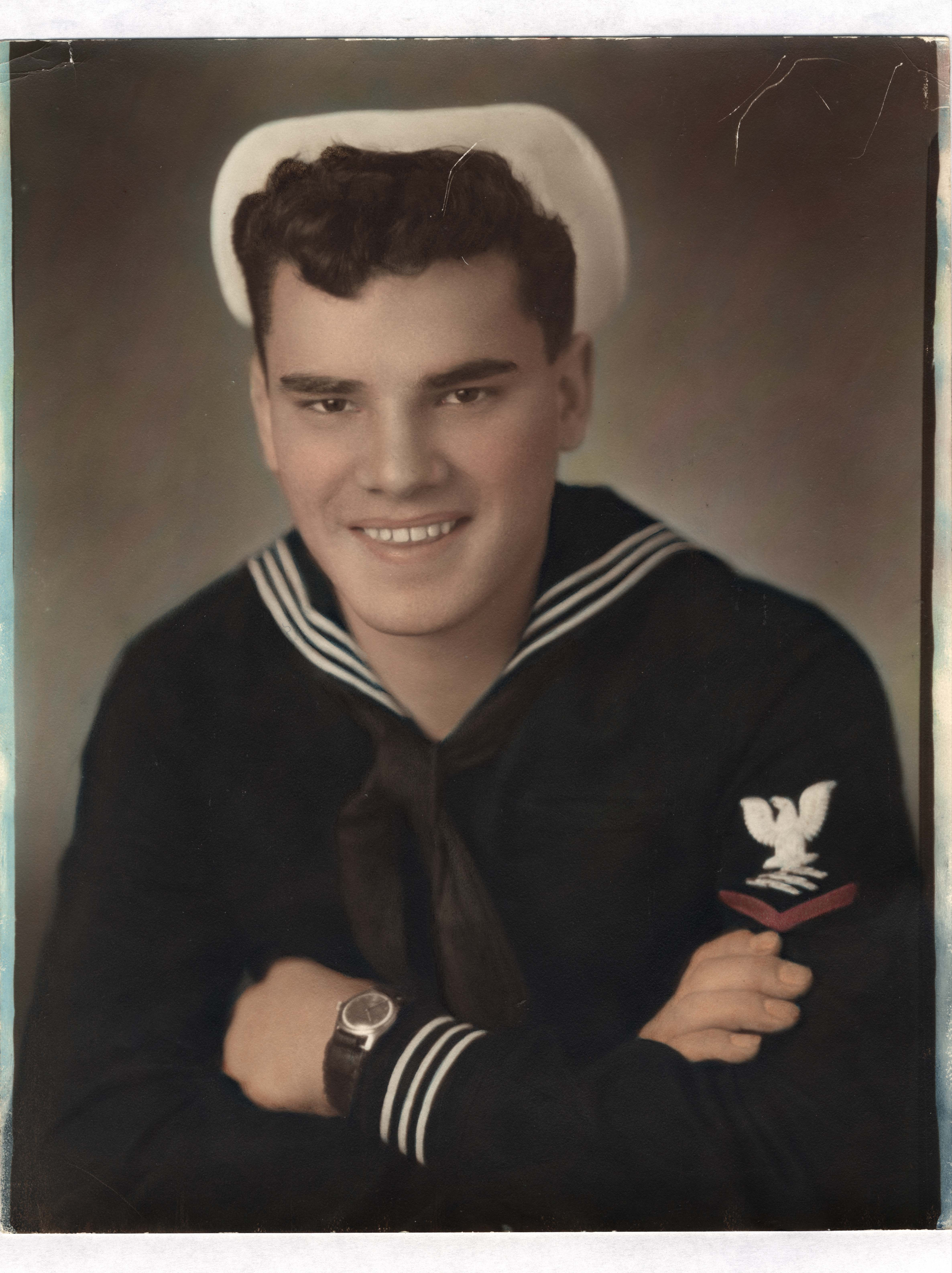 Martin Rodbell in a Navy uniform, circa 1945. He served in the United States Navy in 1944-1946.